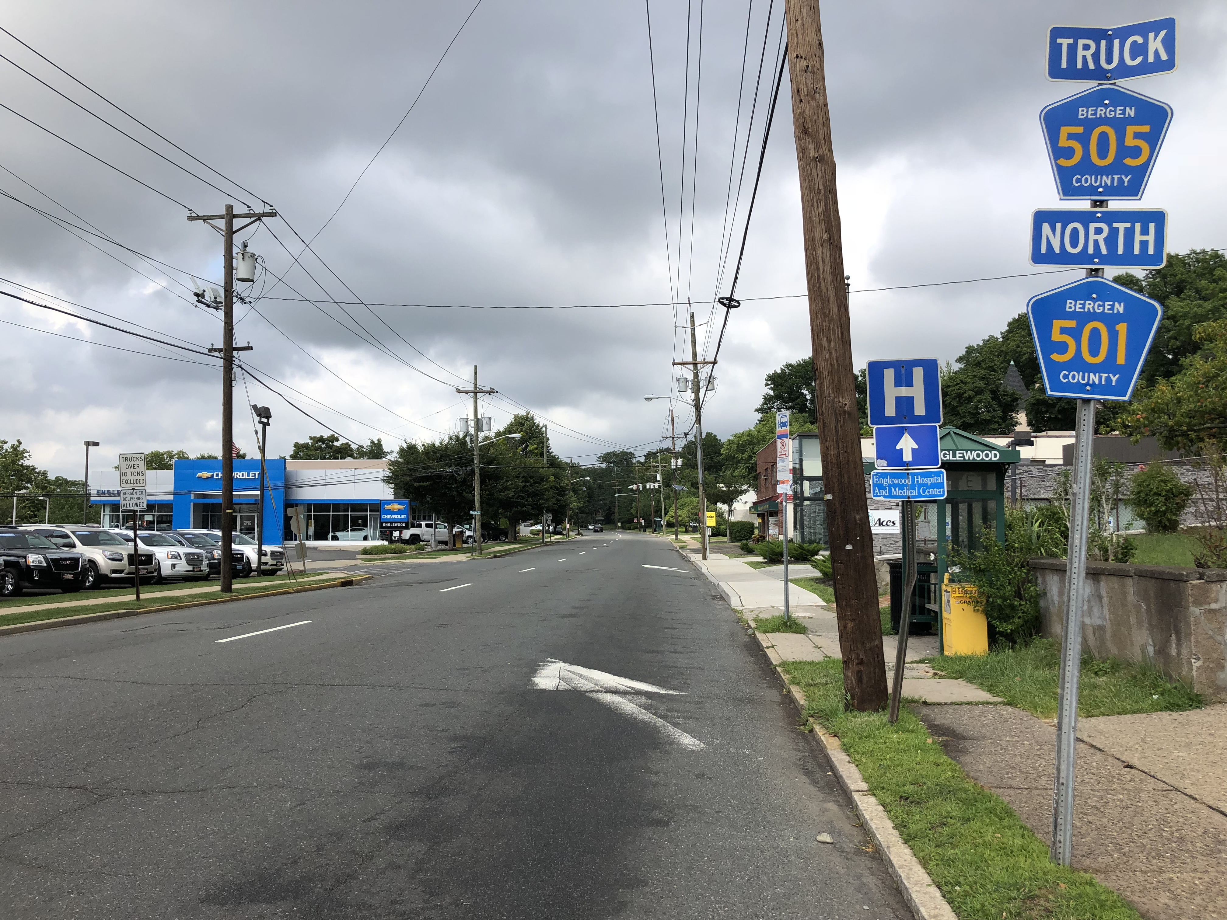 View north along Bergen County Route 501 and Bergen County Route 505 Truck (Grand Avenue) at Van Nostrand Avenue in Englewood, Bergen County, New Jersey